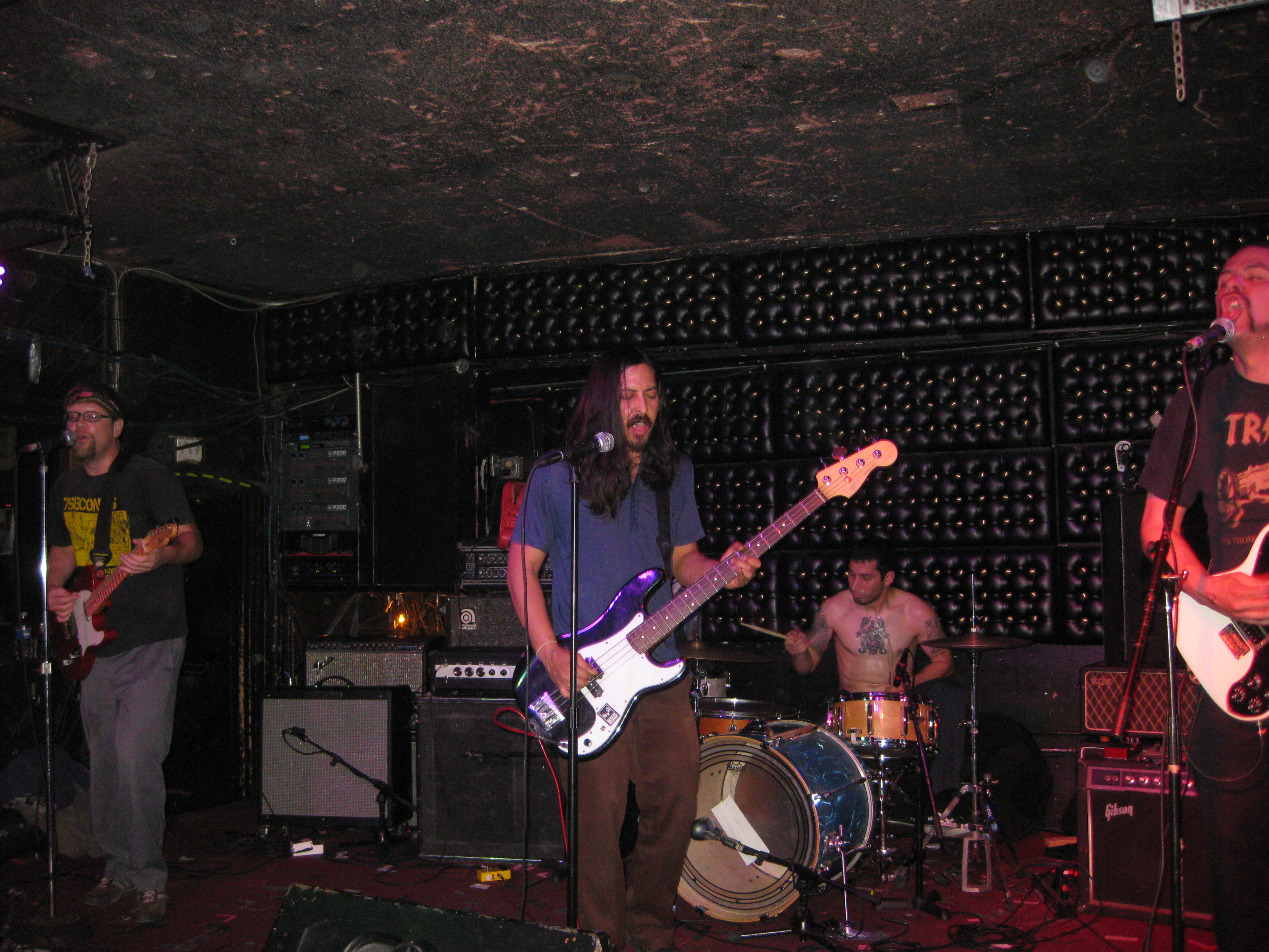 Toys That Kill performing April 6, 2012 at the Casbah in San Diego, California. Left to right: singer/guitarist Todd Congelliere, bassist Chachi Ferrera, drummer Jimmy Felix, and singer/guitarist Sean Cole.